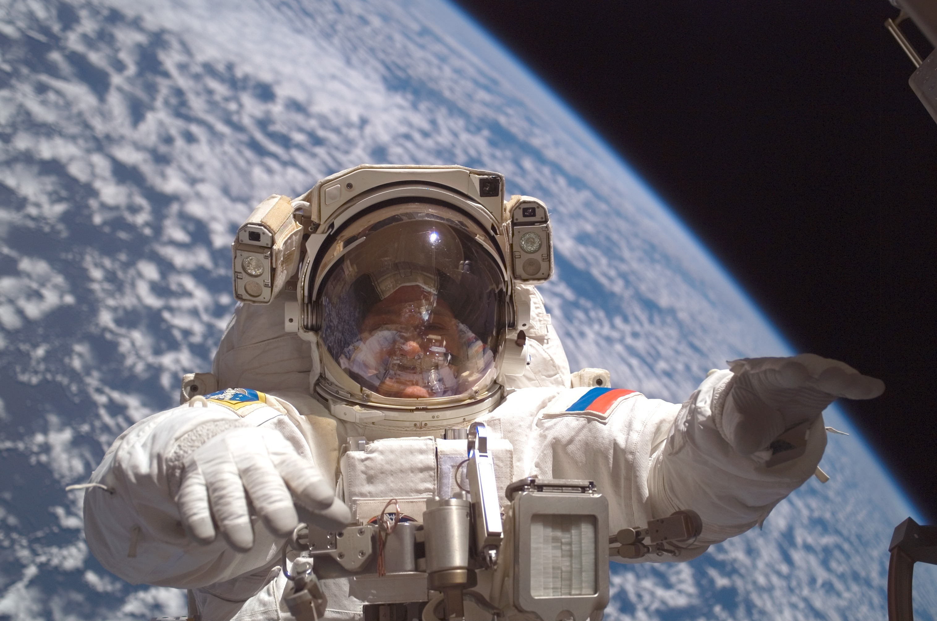 Cosmonaut Fyodor N. Yurchikhin, Expedition 15 commander representing Russia's Federal Space Agency, participates in a session of extravehicular activity (EVA) as construction continues on the International Space Station. During the 7-hour 41-minute spacewalk, Yurchikhin and astronaut Clay Anderson (out of frame), flight engineer, removed and jettisoned the Early Ammonia Servicer (EAS), installed a television camera stanchion, reconfigured a power supply for an antenna assembly, and performed several get-ahead tasks.